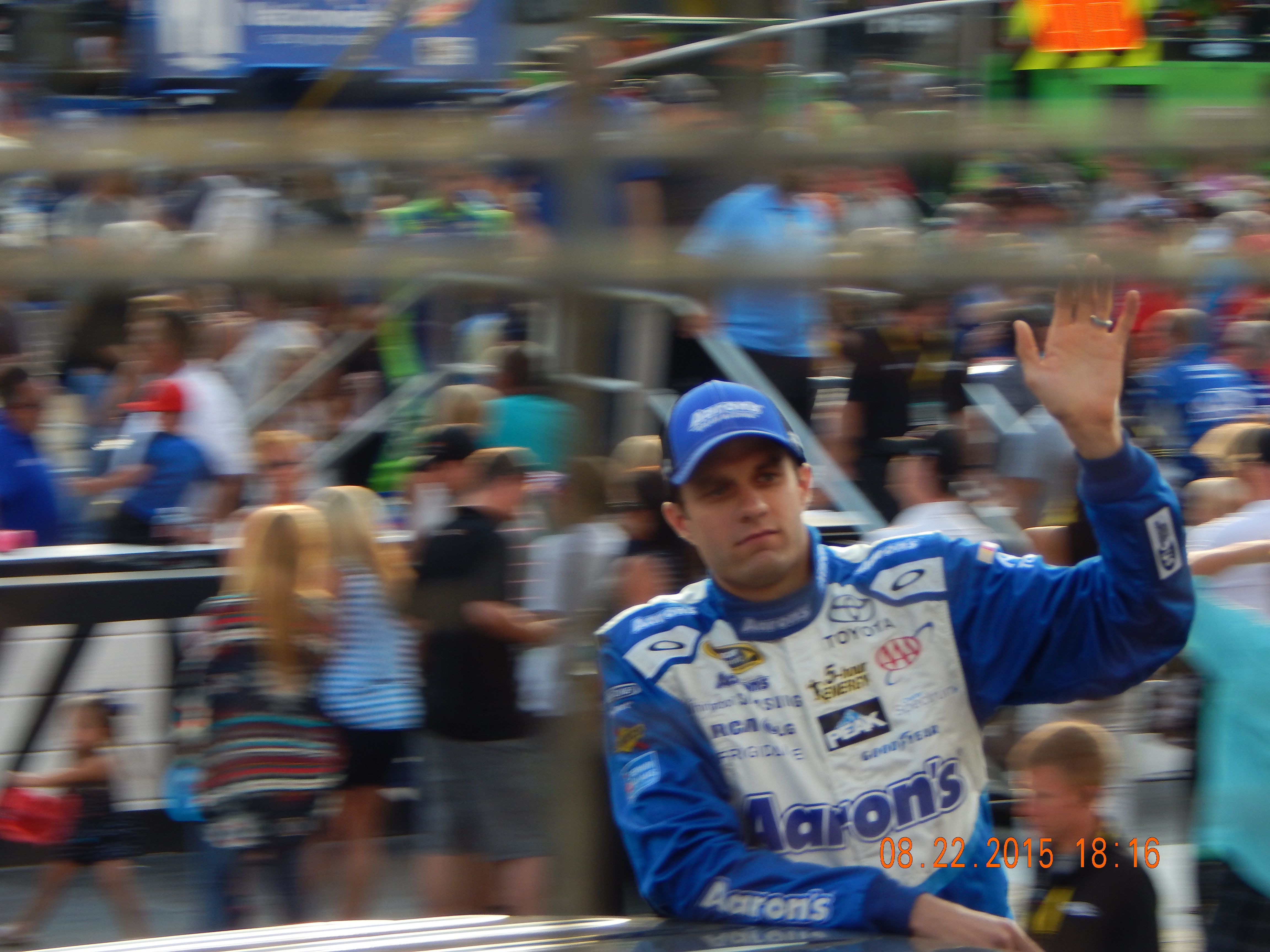 David Ragan being introduced at Bristol Motor Speedway for the Irwin Tools Night Race.